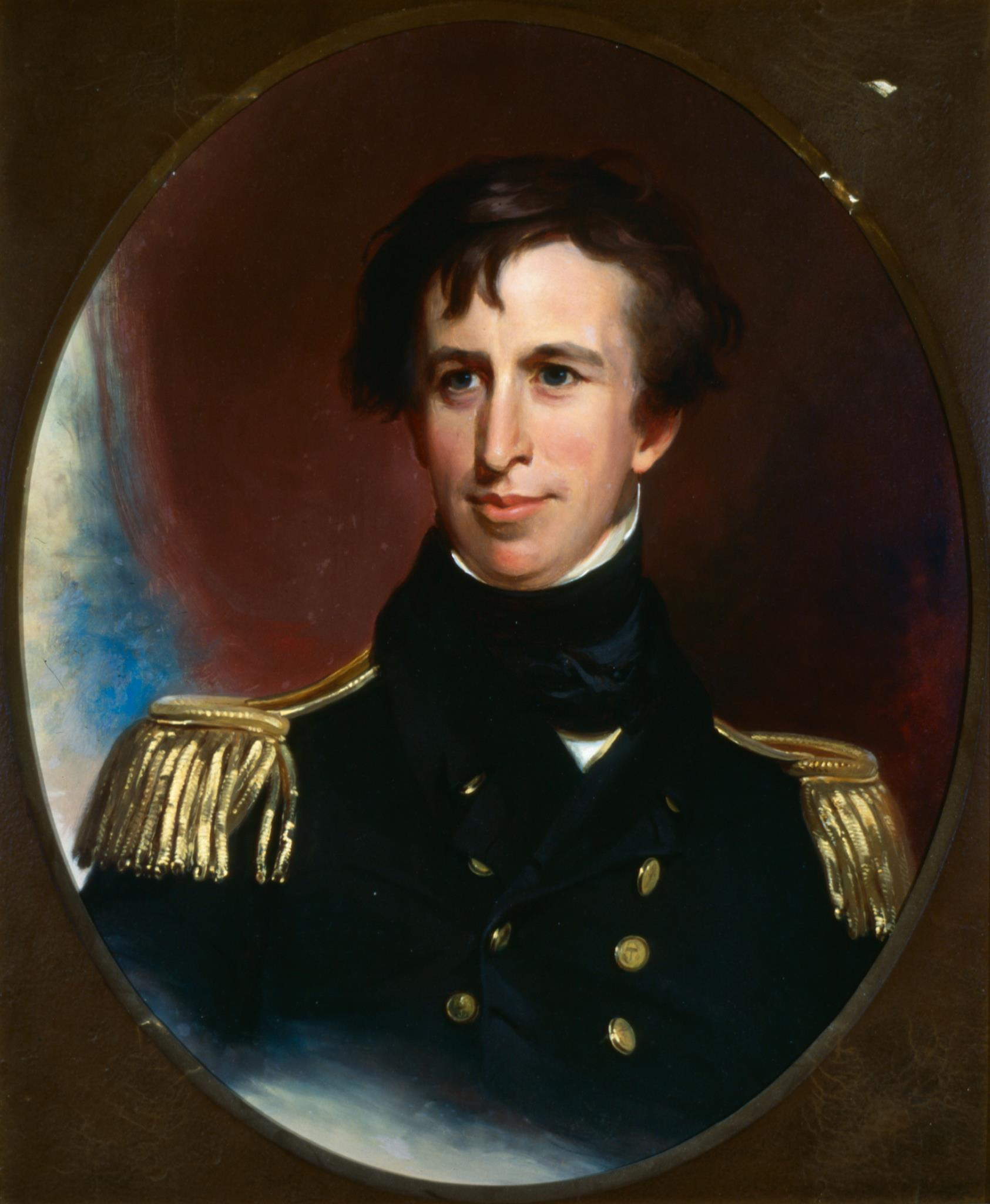 Portrait of Charles Wilkes by Thomas Sully